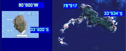 Juan Fernandez Islands, left Más Afuera right Más a Tierra (or Robinson Crusoe)